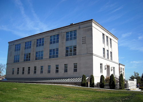 McGivney Hall on the Catholic University of America campus in Washington